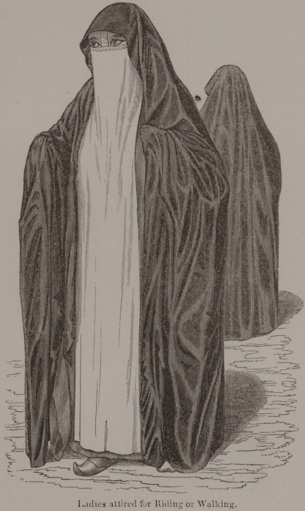 Two ladies attired in veils and long robes. Engraving (prints).